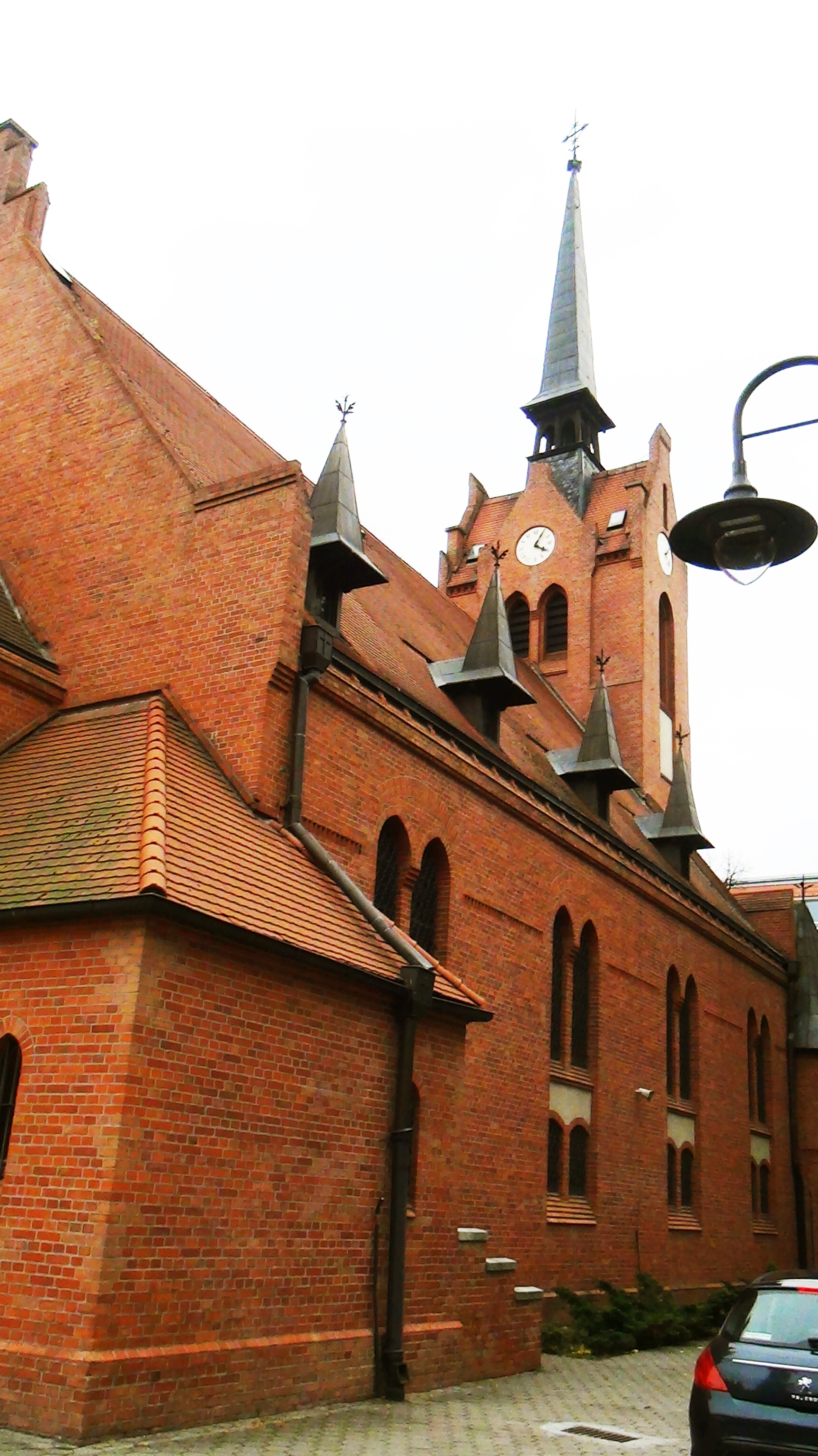 Garrison church of the Exaltation of the Holy Cross in Poznań, Poland, view from the north-west 2